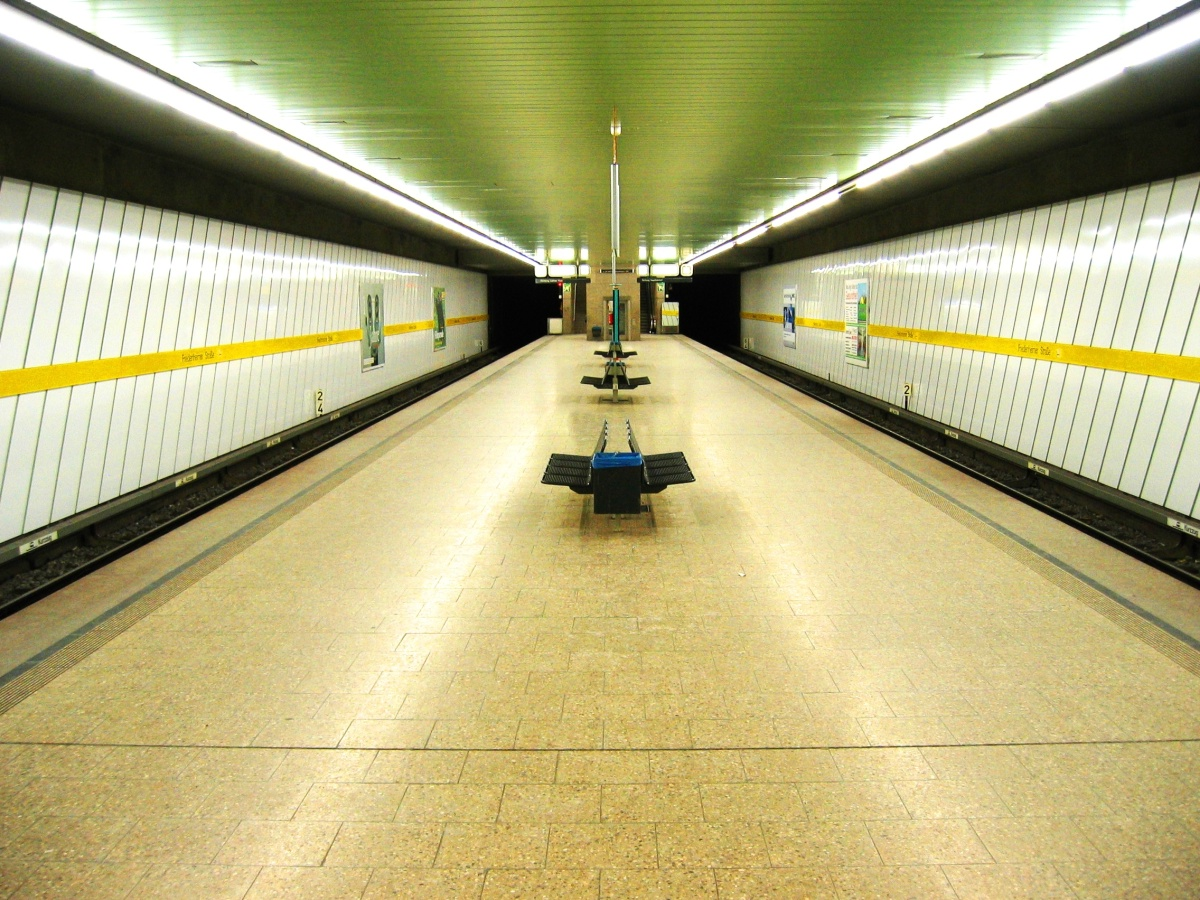 Munich subway station Friedenheimer Straße